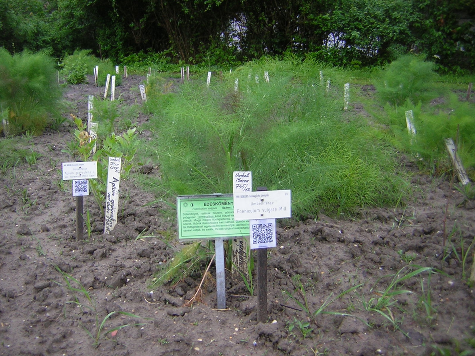 Fennel with QRcode in Botanical Garden Vácrátót, Hungary